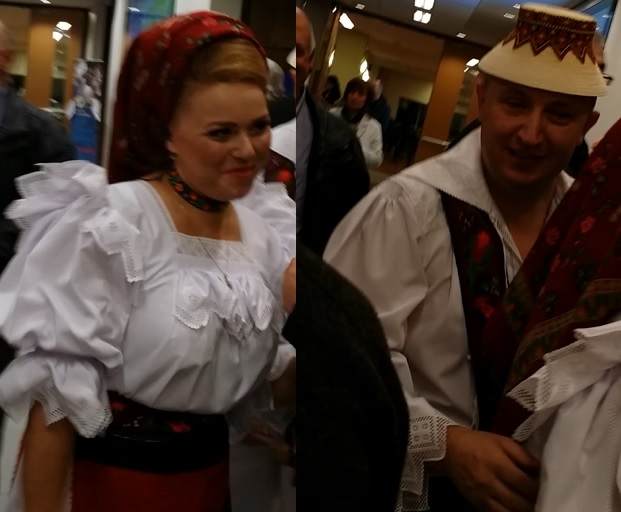 Cornelia și Lupu Rednic photographed in Montréal, Québec, Canada at the Maisonneuve College.